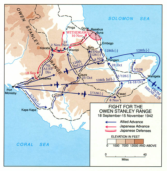 Map of engagements along the Kokoda Track campaign in New Guinea.